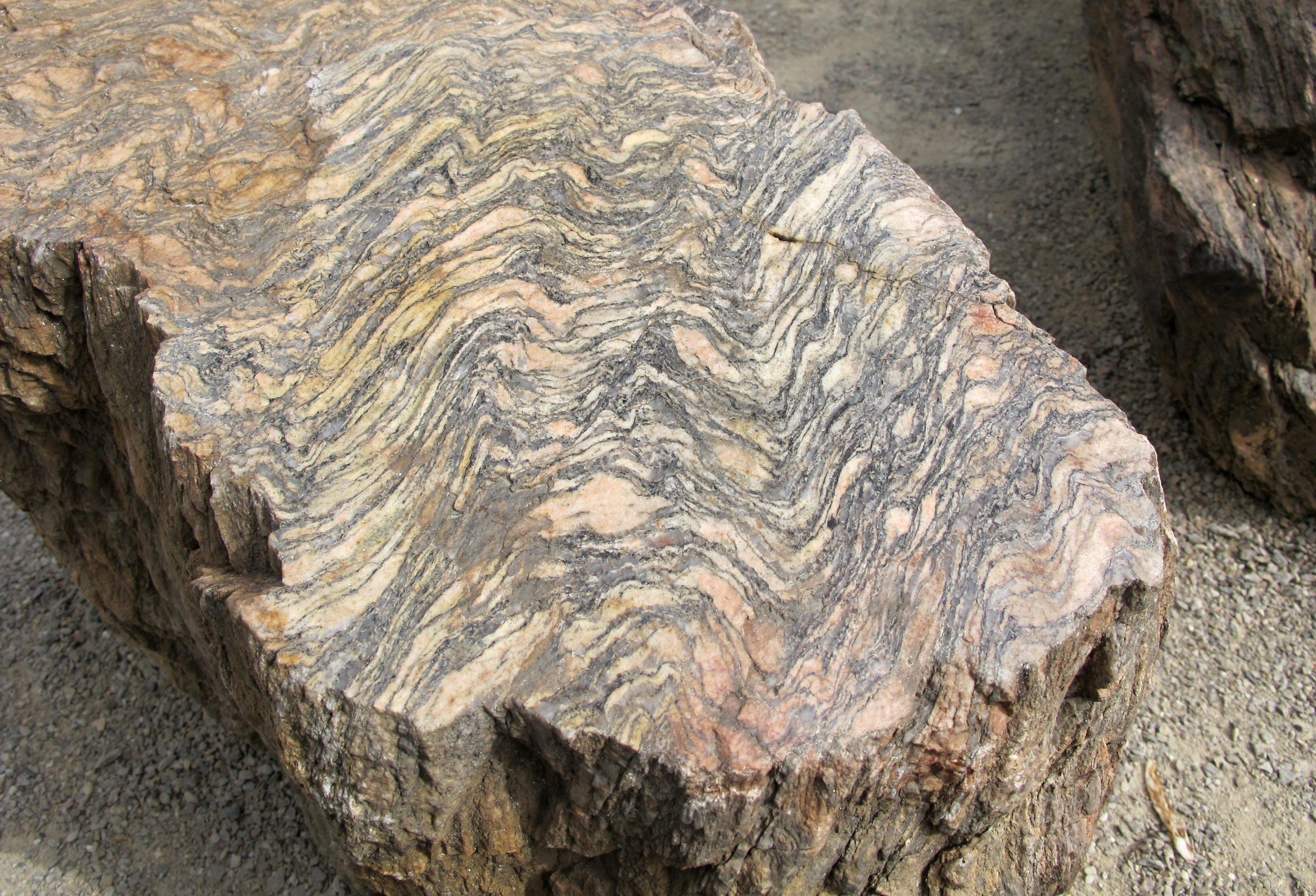 Orthogneiss in geopark in botanic garden on Albertov, Prague, Czech Republic